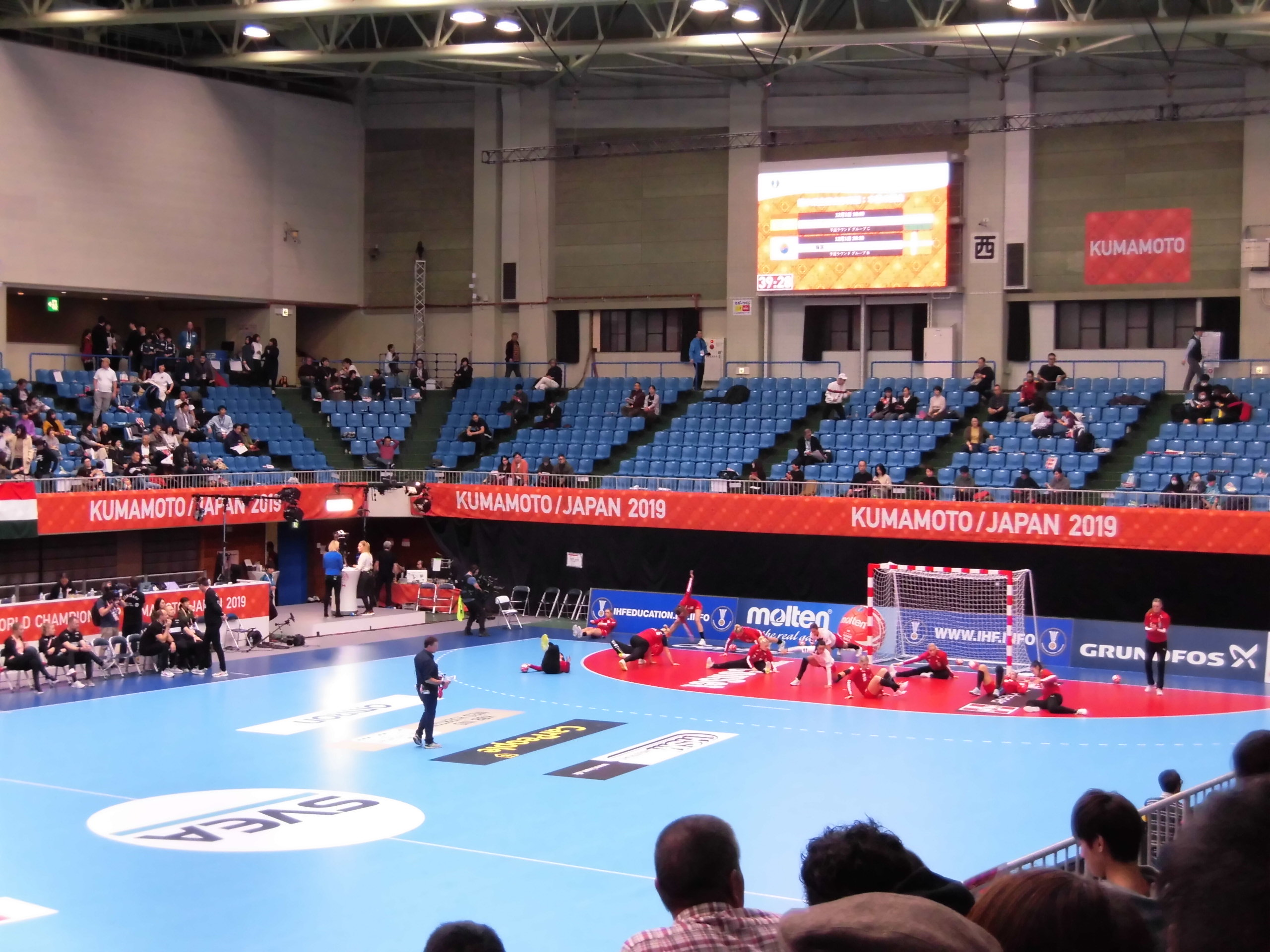 24th IHF Women's Handball World Championship Kumamoto 2019 Korea-Denmark